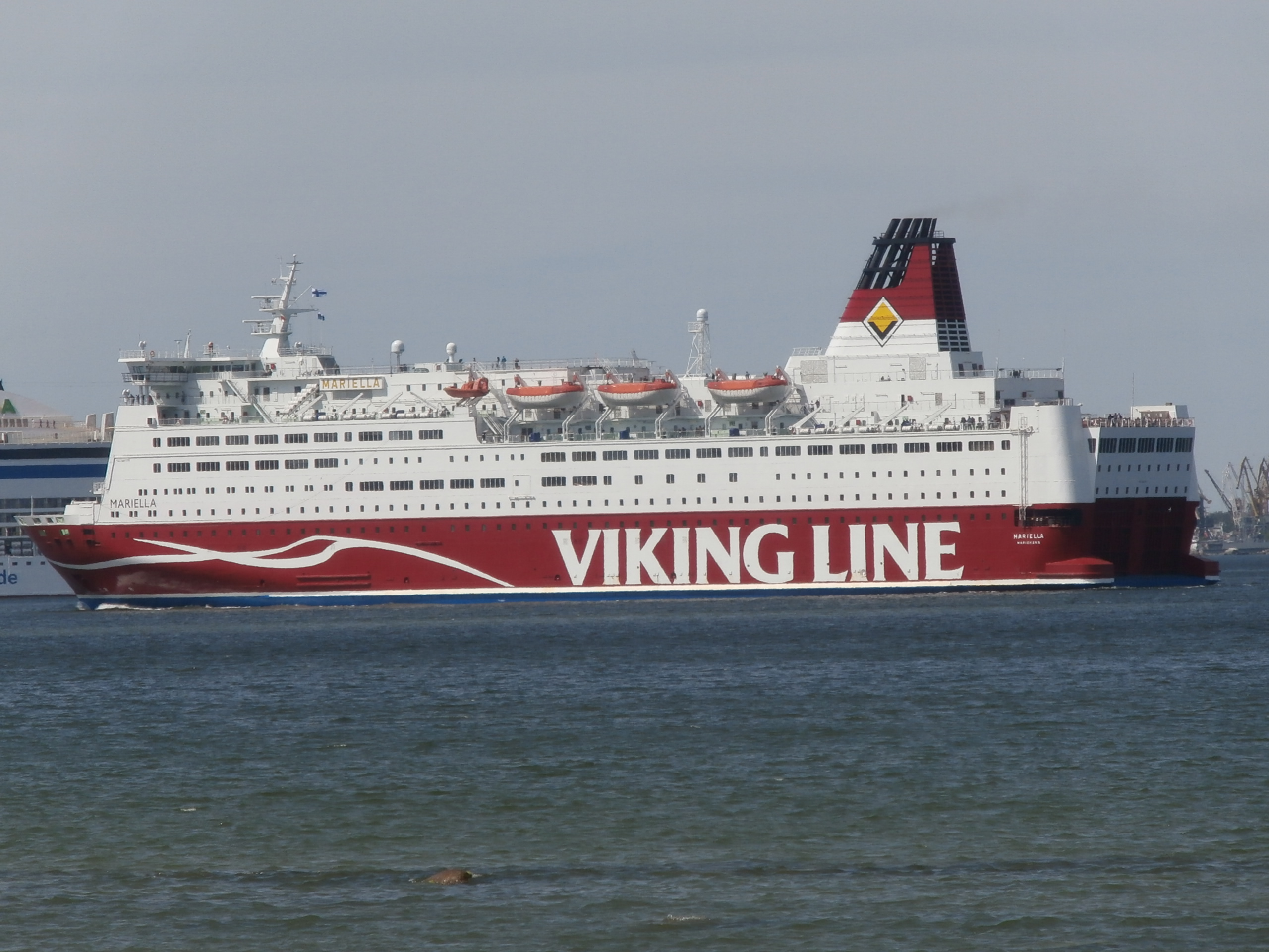 Mariella arriving in Tallinn 13 June 2015 (AIDAdiva behind her)